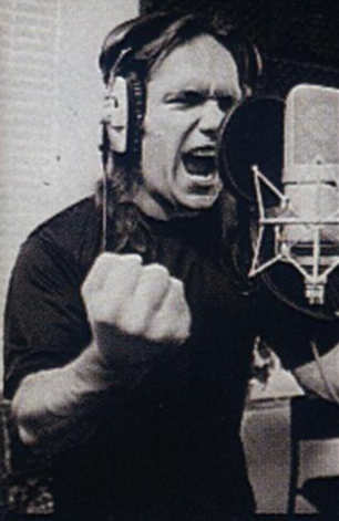 This is a public domain picture of Blaze Bayley during the recording of his solo album Silicone Messiah.